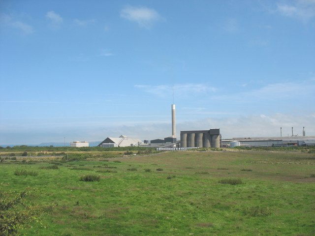 View across farmland to the Anglesey Aluminium Plant